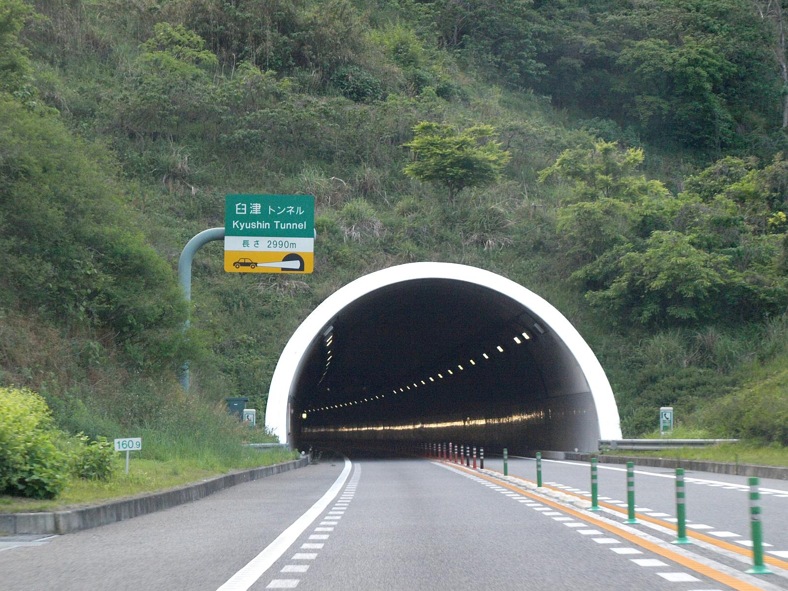 Kyushin Tunnel, Higashikyushu Expressway